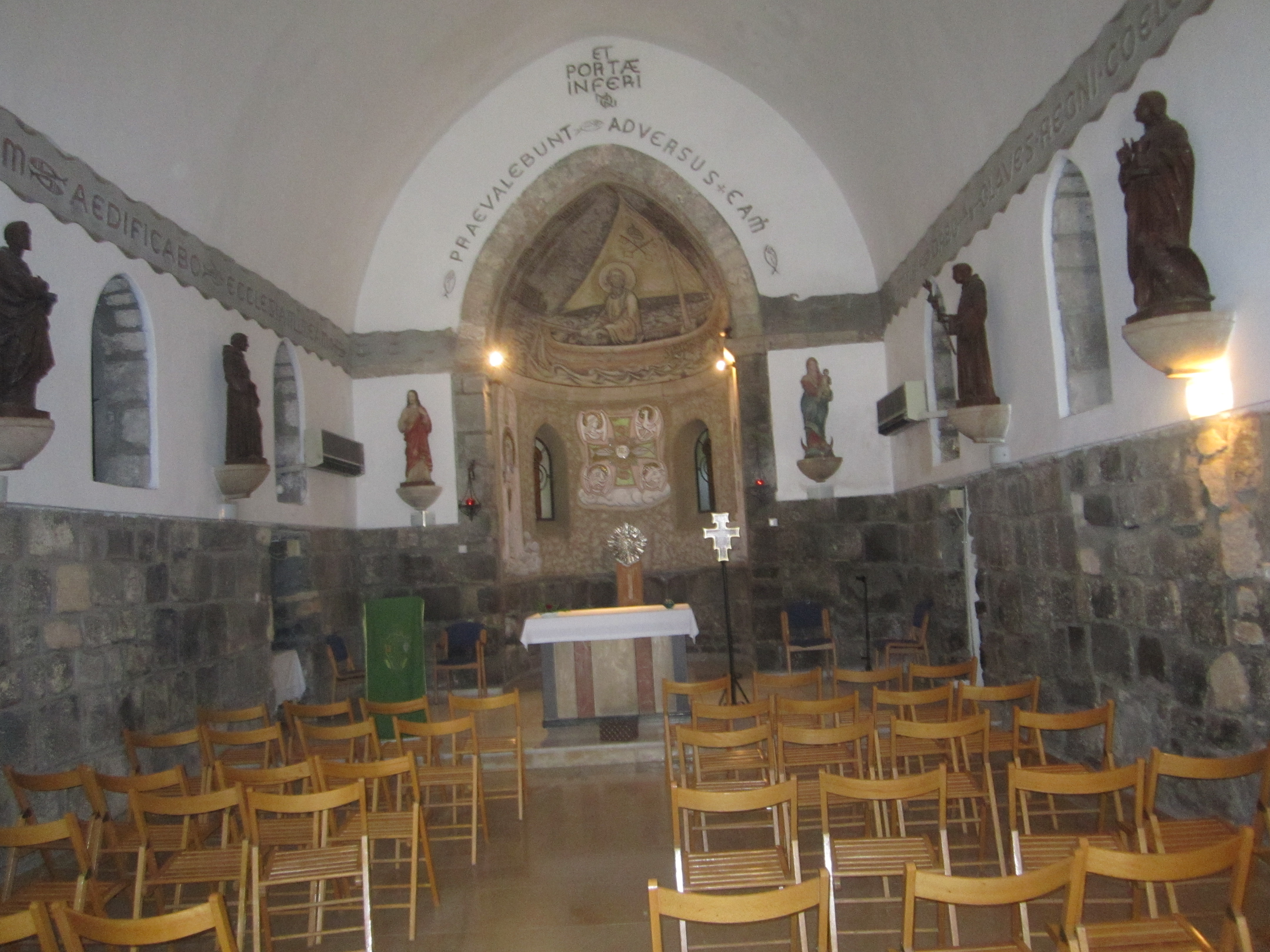 St. Peter's church in Tiberias